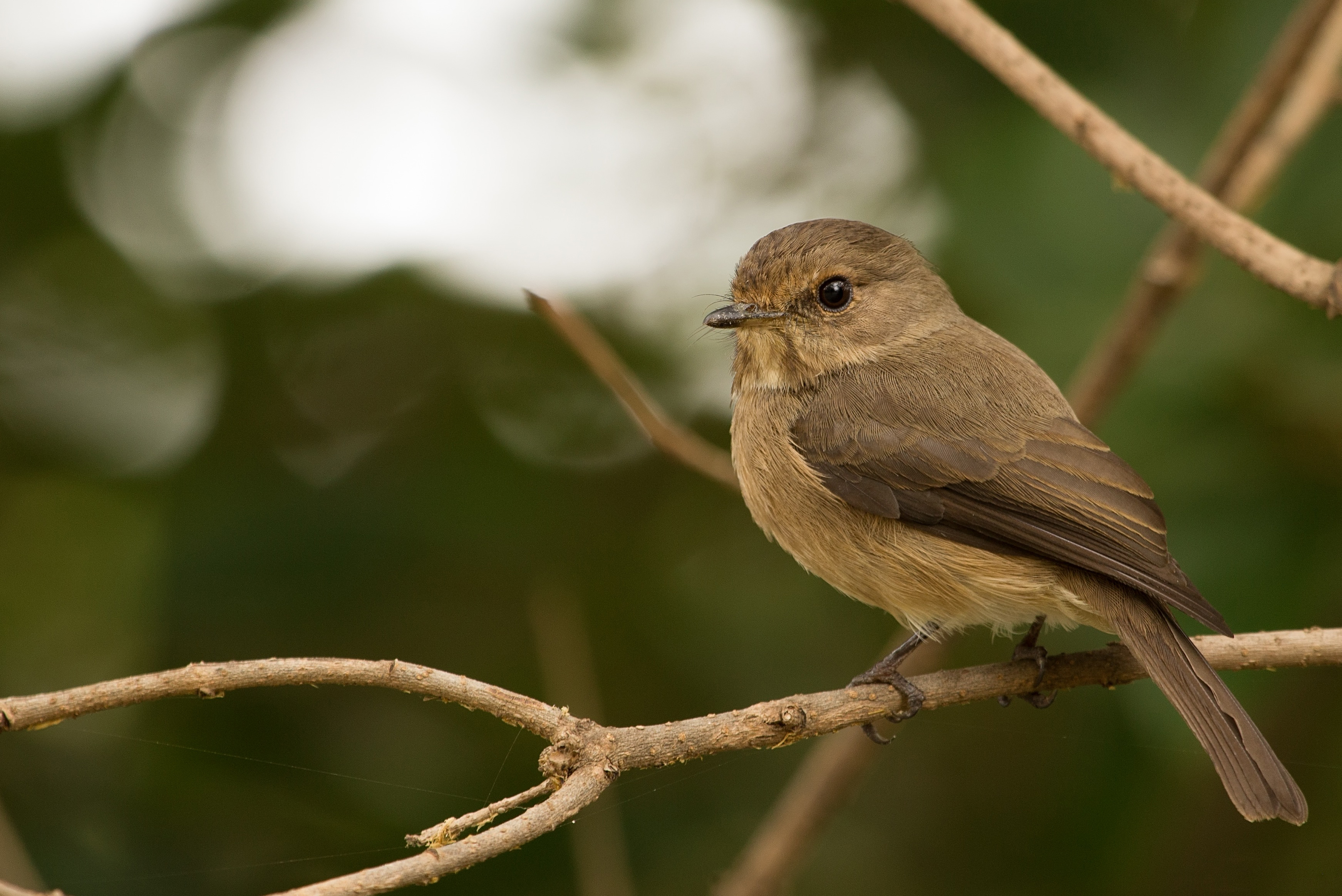 Individual at Lake Naivasha, Kenya